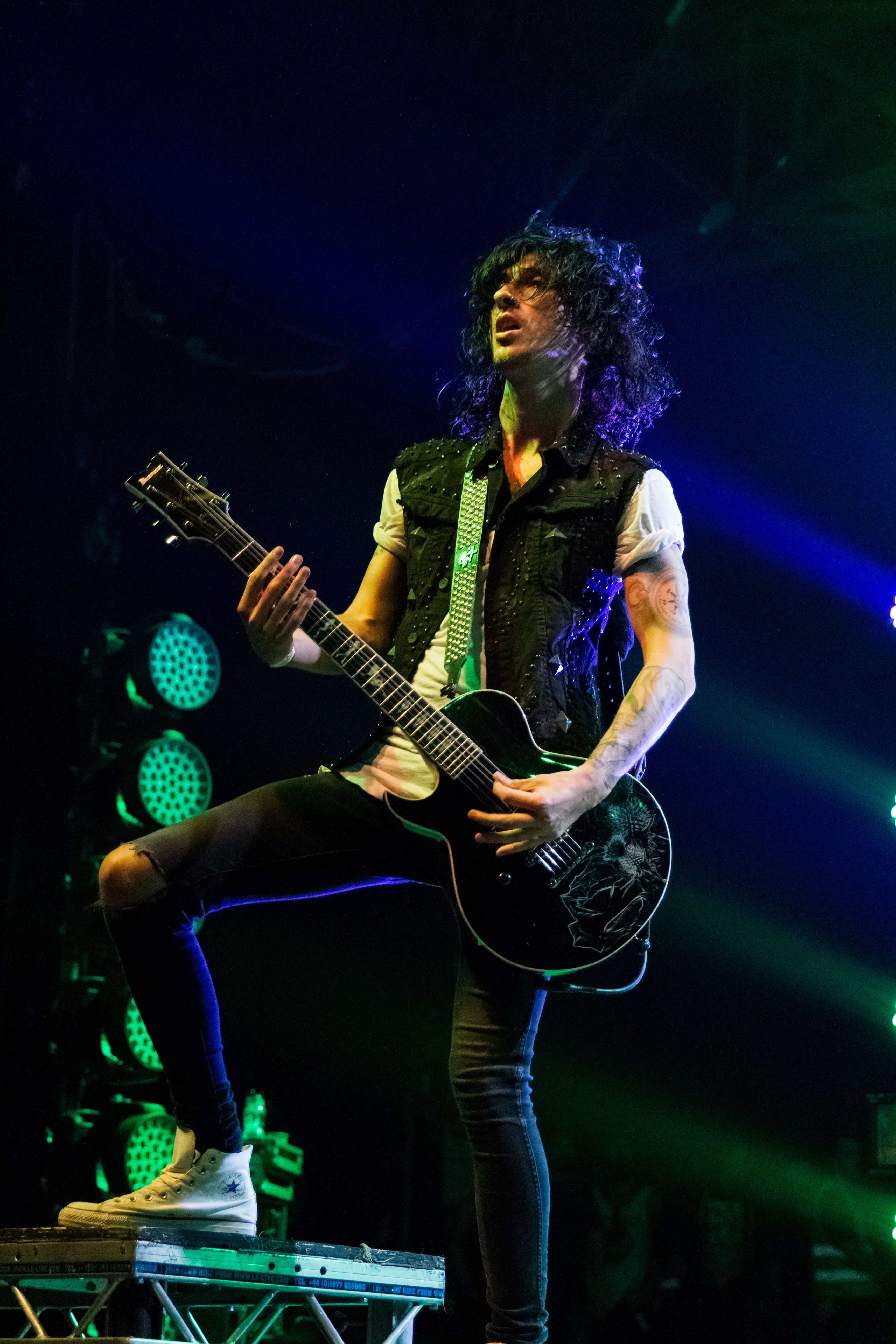 Asking Alexandria - Rock am Ring 2015